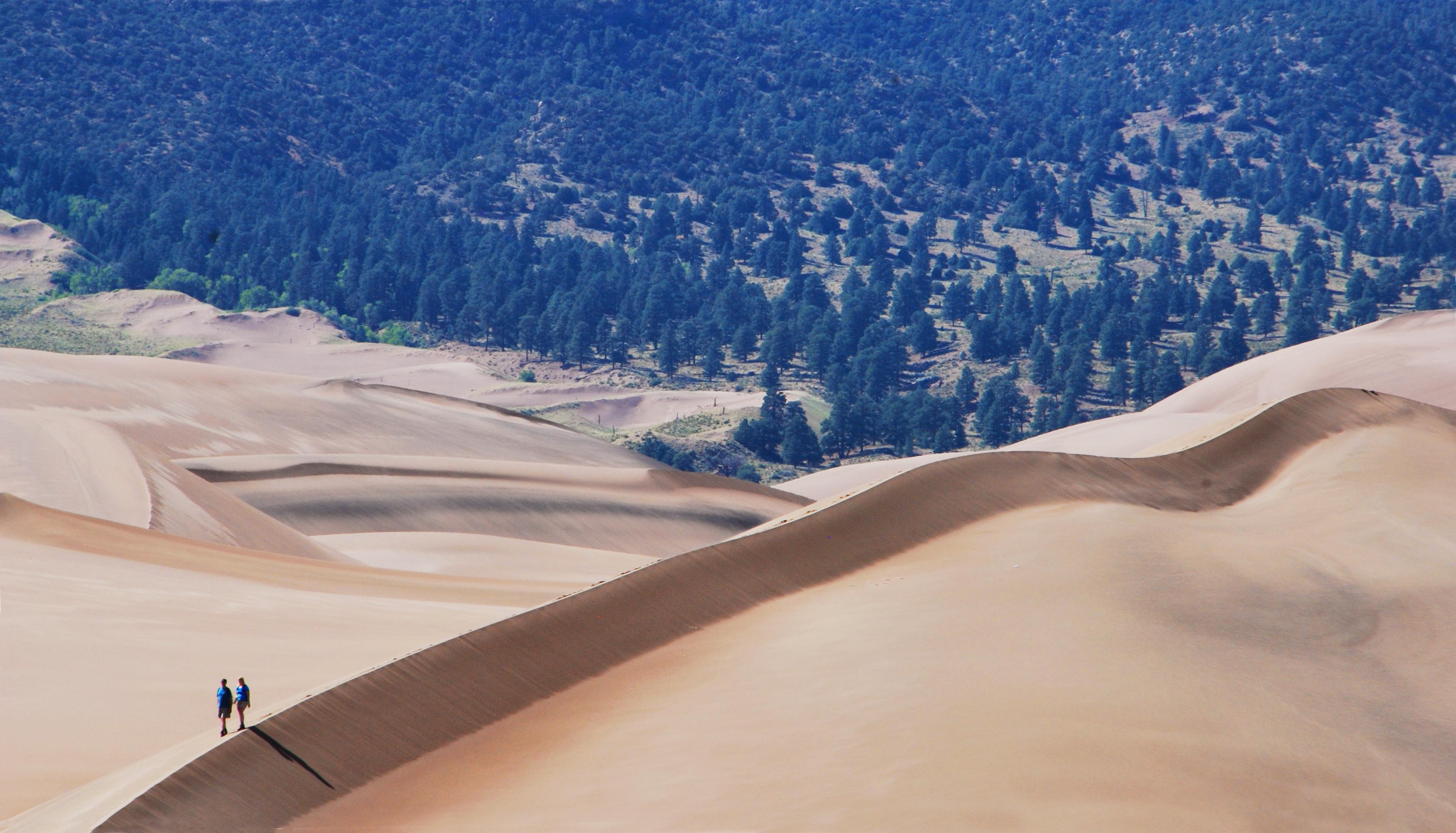 NPS/Patrick Myers